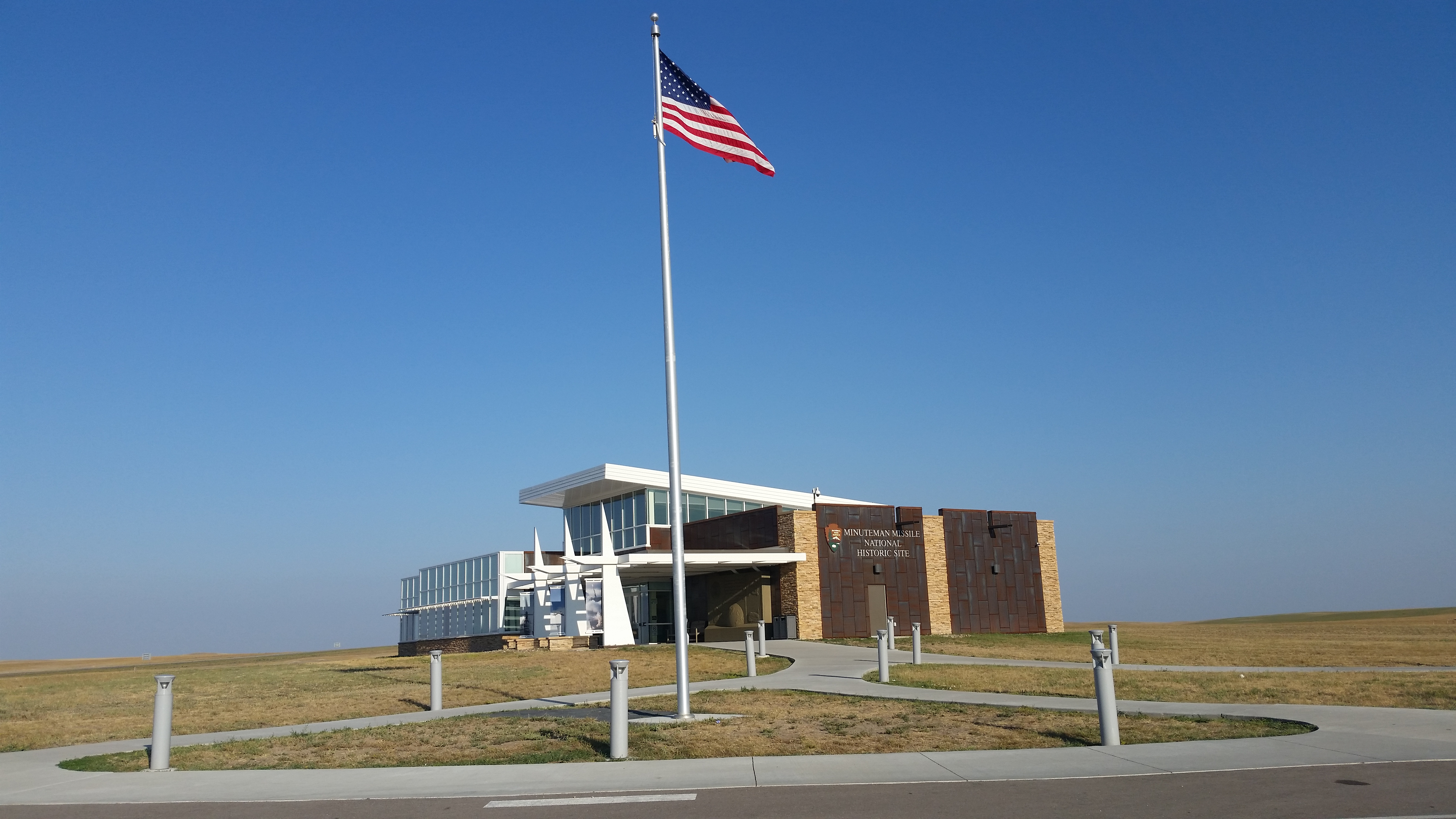 Minuteman Missile National Historic Site visitor center